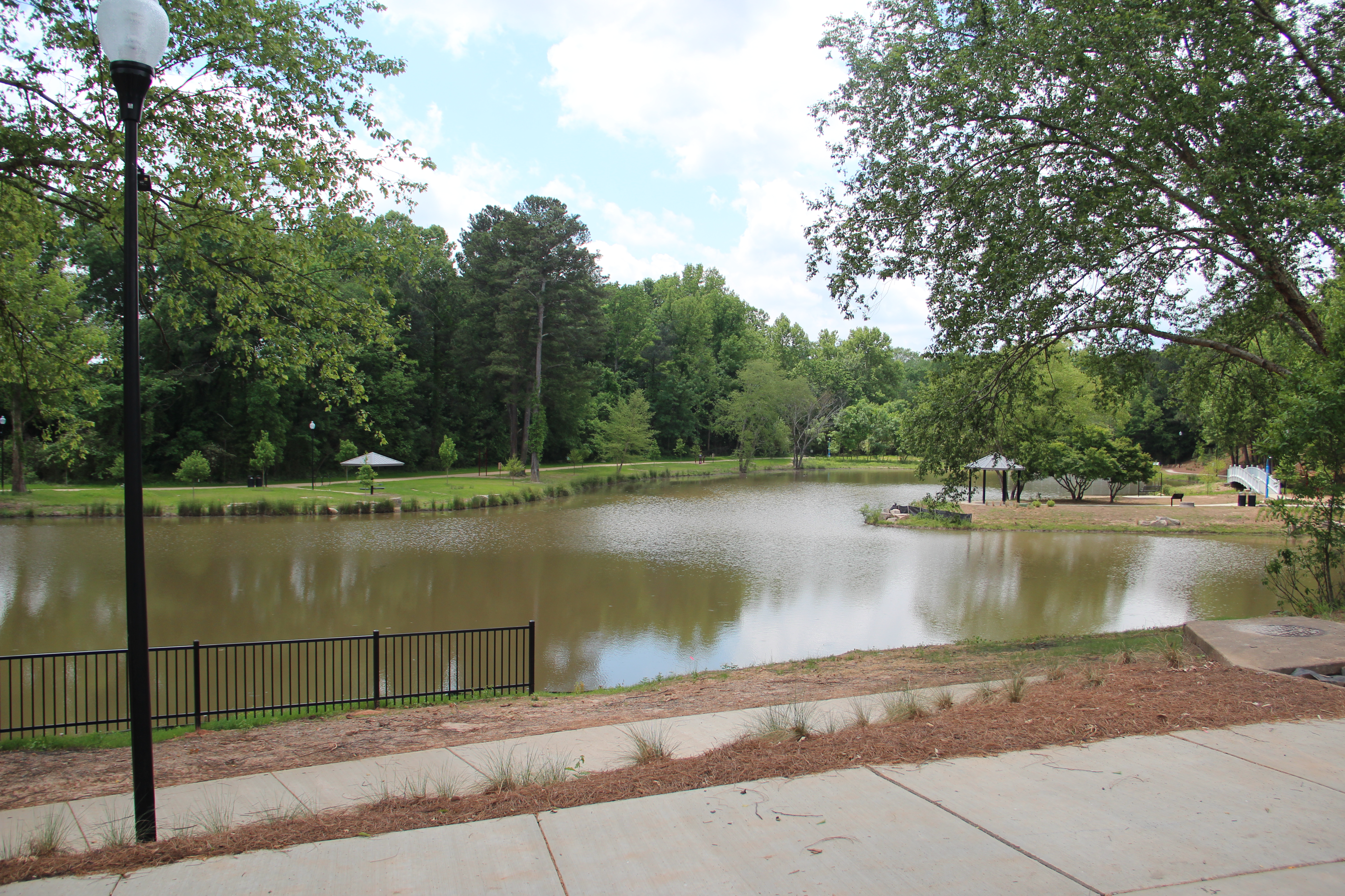 Pinnacle Park, Norcross, GA